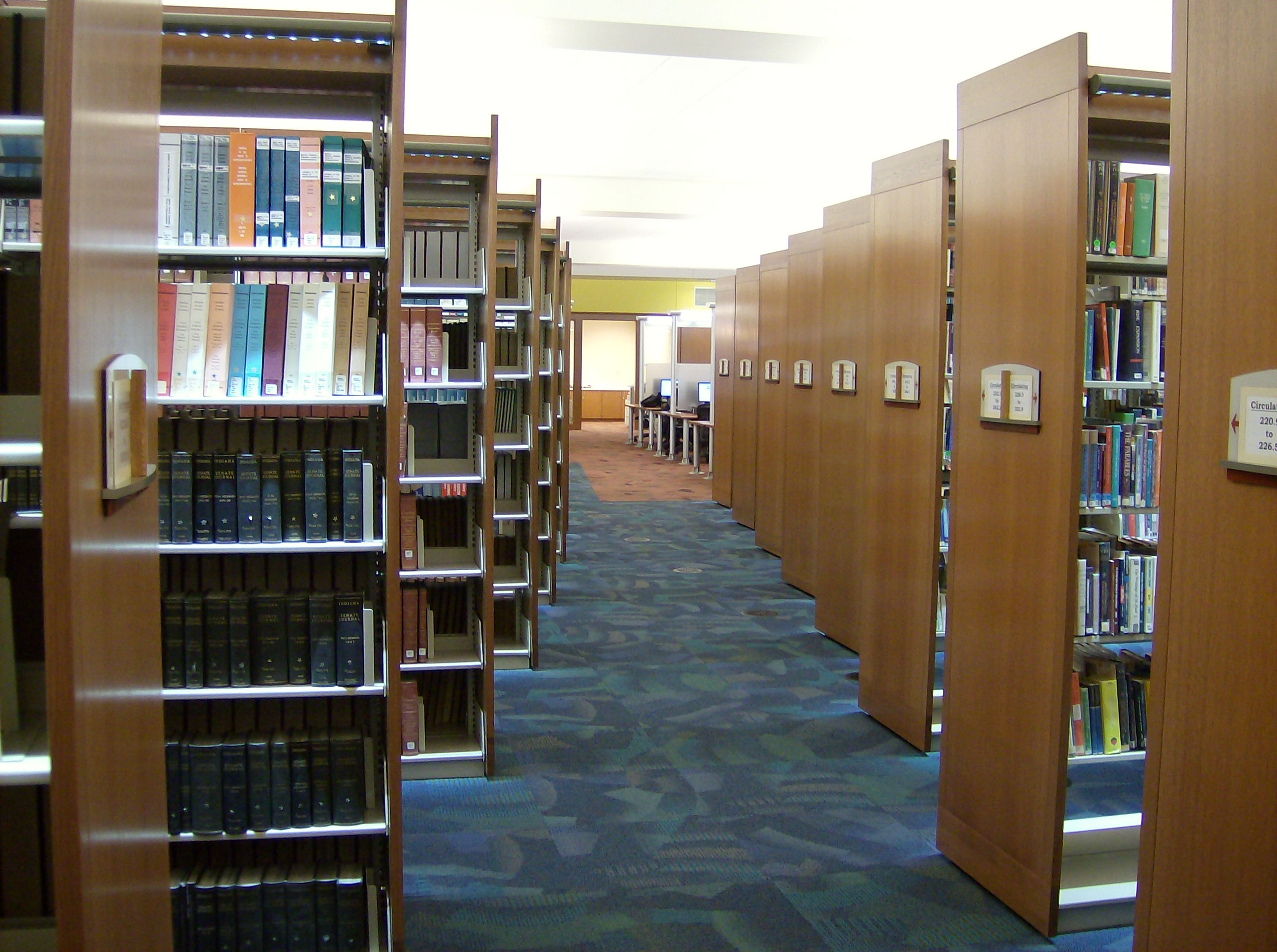 Shelving on the sixth floor of the Central Library of the Indianapolis-Marion County Public Library in central Indianapolis, Indiana, United States.